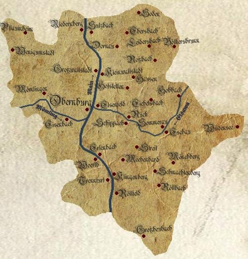 Management area of the bavarian Bezirksamt Obernburg in 1875. Traced from the Topographischer Atlas vom Königreiche Baiern diesseits des Rhein Blatt: 17. Aschaffenburg and Blatt: 25 Miltenberg